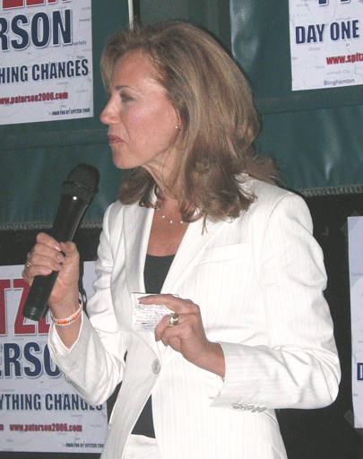 Silda Wall Spitzer, at Nathaniel's Pub in Rochester, NY for the party after the Governor's debate.